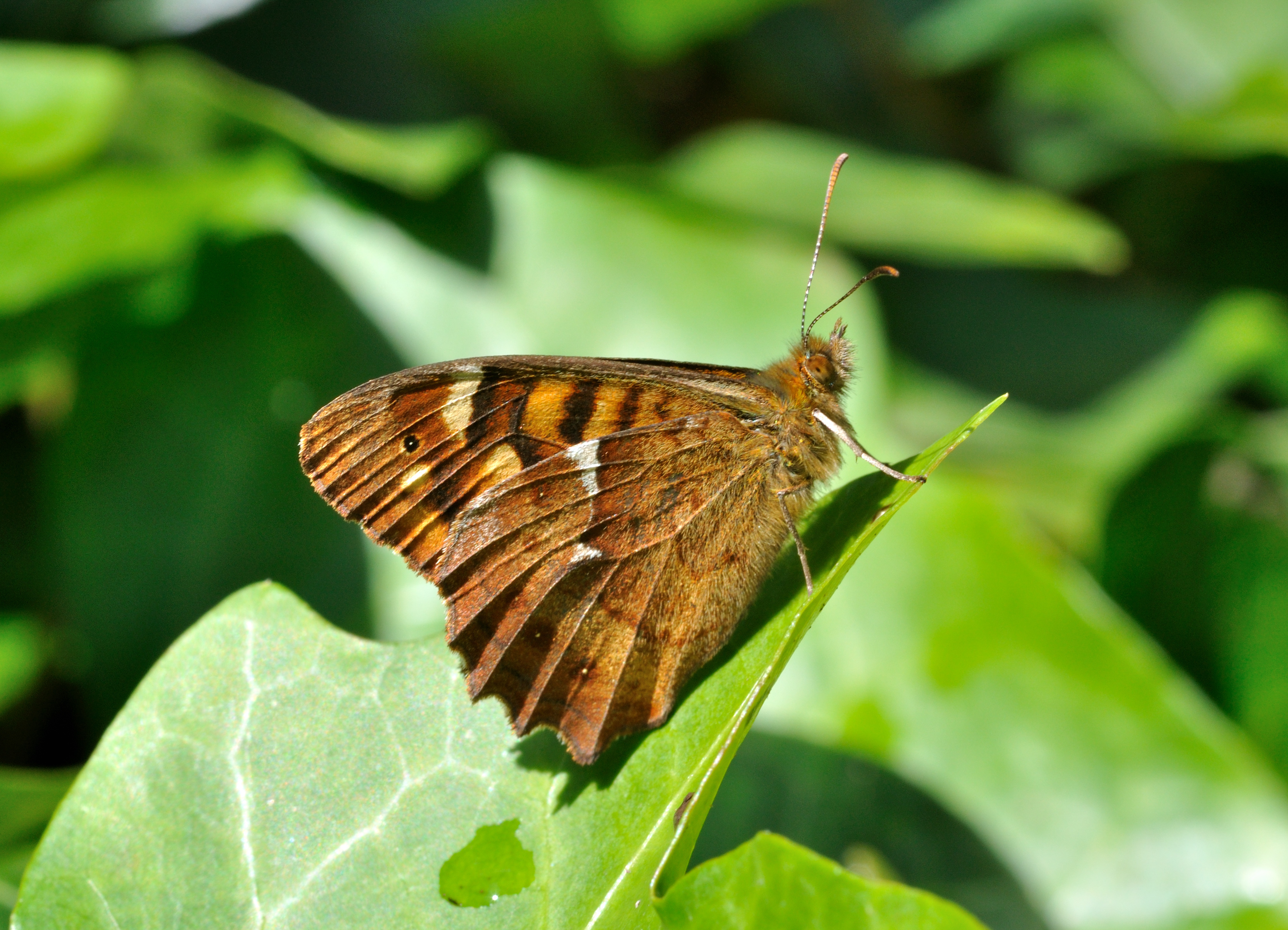 Canary Speckled Wood (Pararge xiphioides) in the botanical garden of Puerto de la Cruz, Tenerife, Spain.